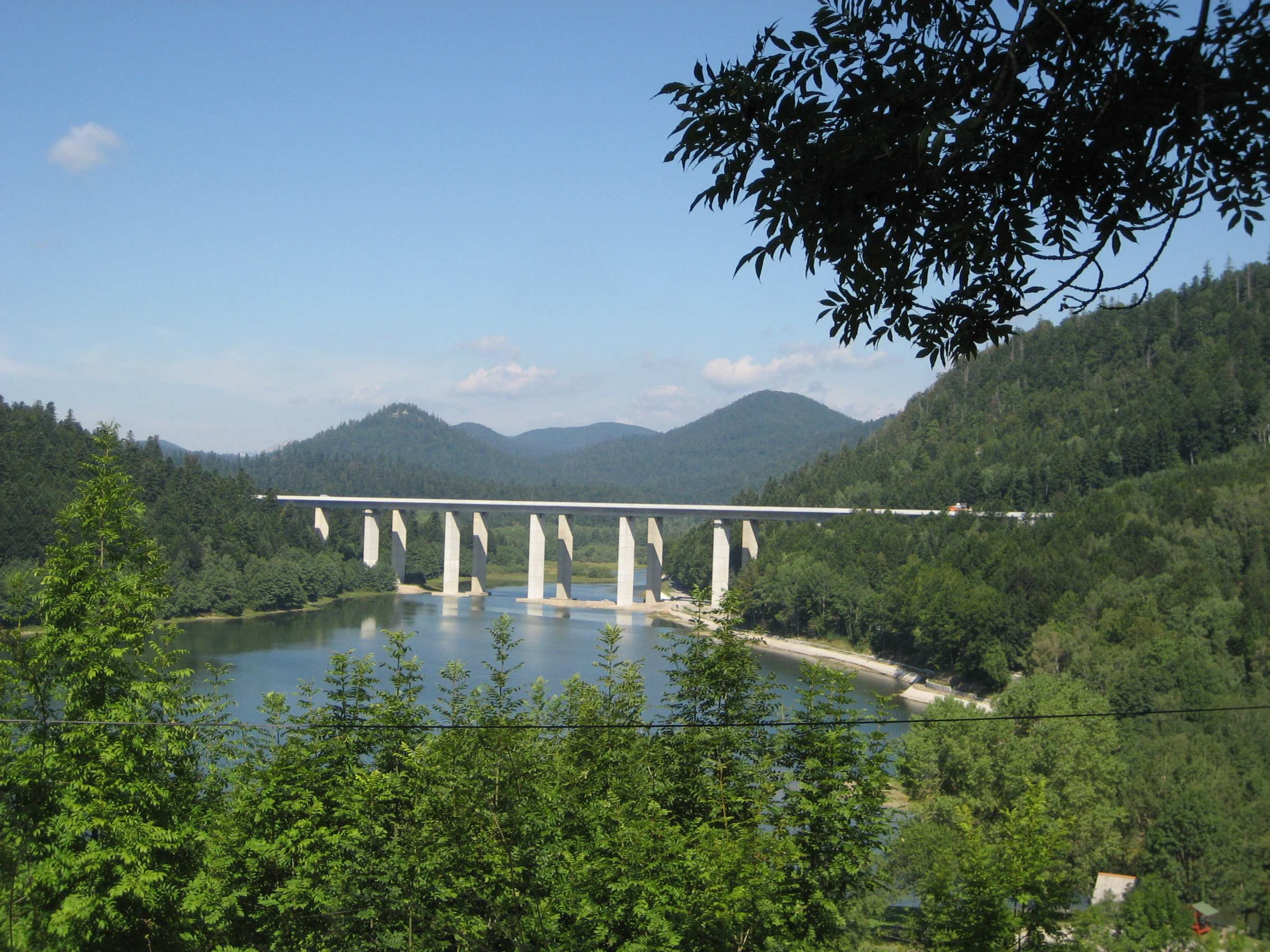 Lake Bajer, Gorsko Kotar, Croatia